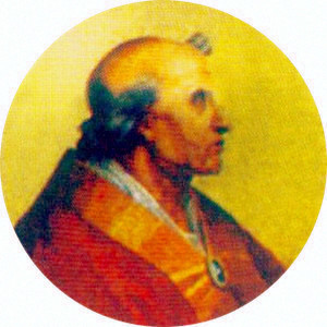 Portait of Pope Sergius III in the Basilica of Saint Paul Outside the Walls, Rome